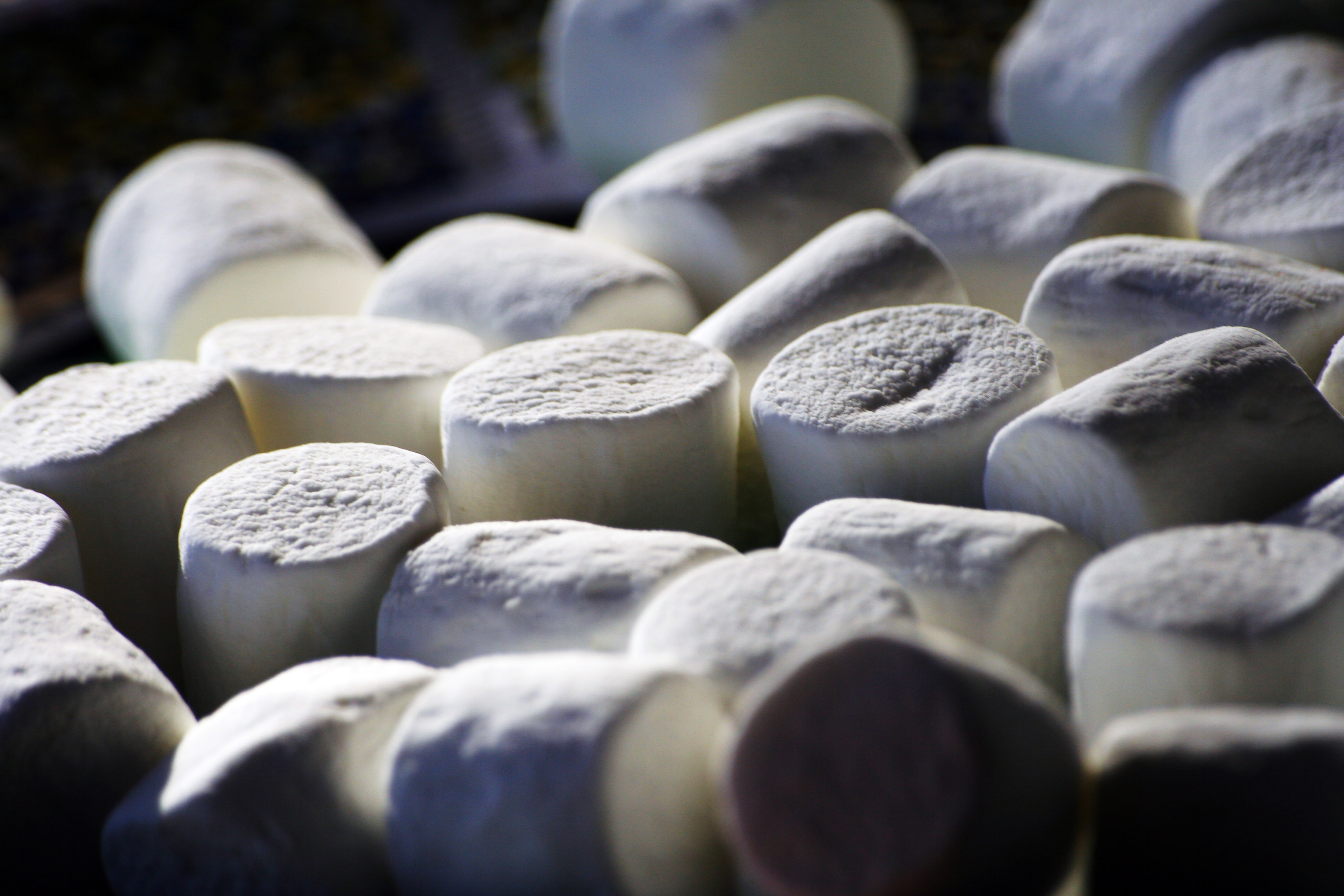 White marshmallows.